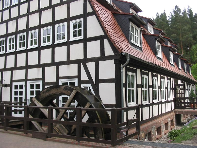 econstructed Springbach-Mühle (watermill) in Belzig. Belzig is the central town of the district Potsdam-Mittelmark in the state Brandenburg of Germany. Belzig appertains to the natural preserve Naturpark Hoher Fläming.